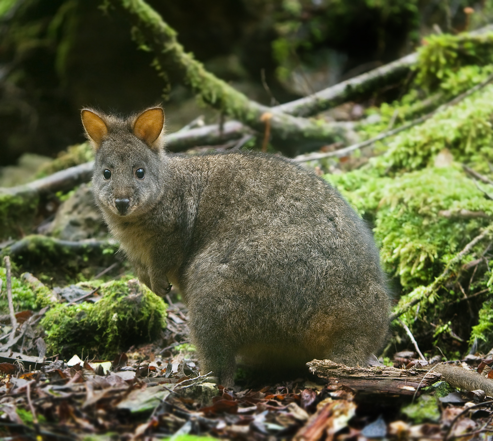 Tasmanian Pademelon (Thylogale billardierii), Mt Field National Park, Tasmania, Australia